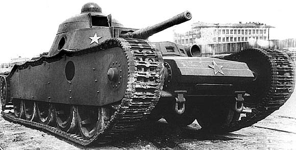 Tank Grotte TG at the Military Academy of Motorization and Mechanization of the Workers' and Peasants' Red Army named after I.V. Stalin, 1931